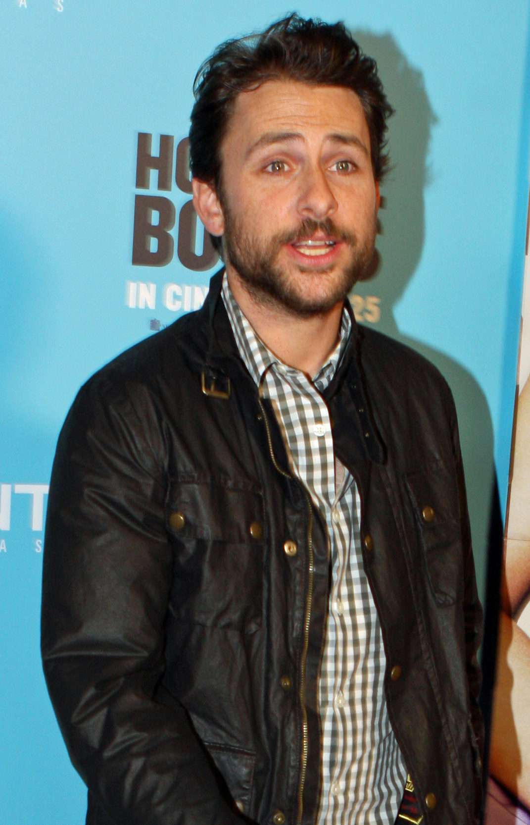 Charlie Day at the film premiere of Horrible Bosses.